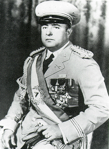 Anastasio Somoza Garsia, elected president of Nicaragua in 1936